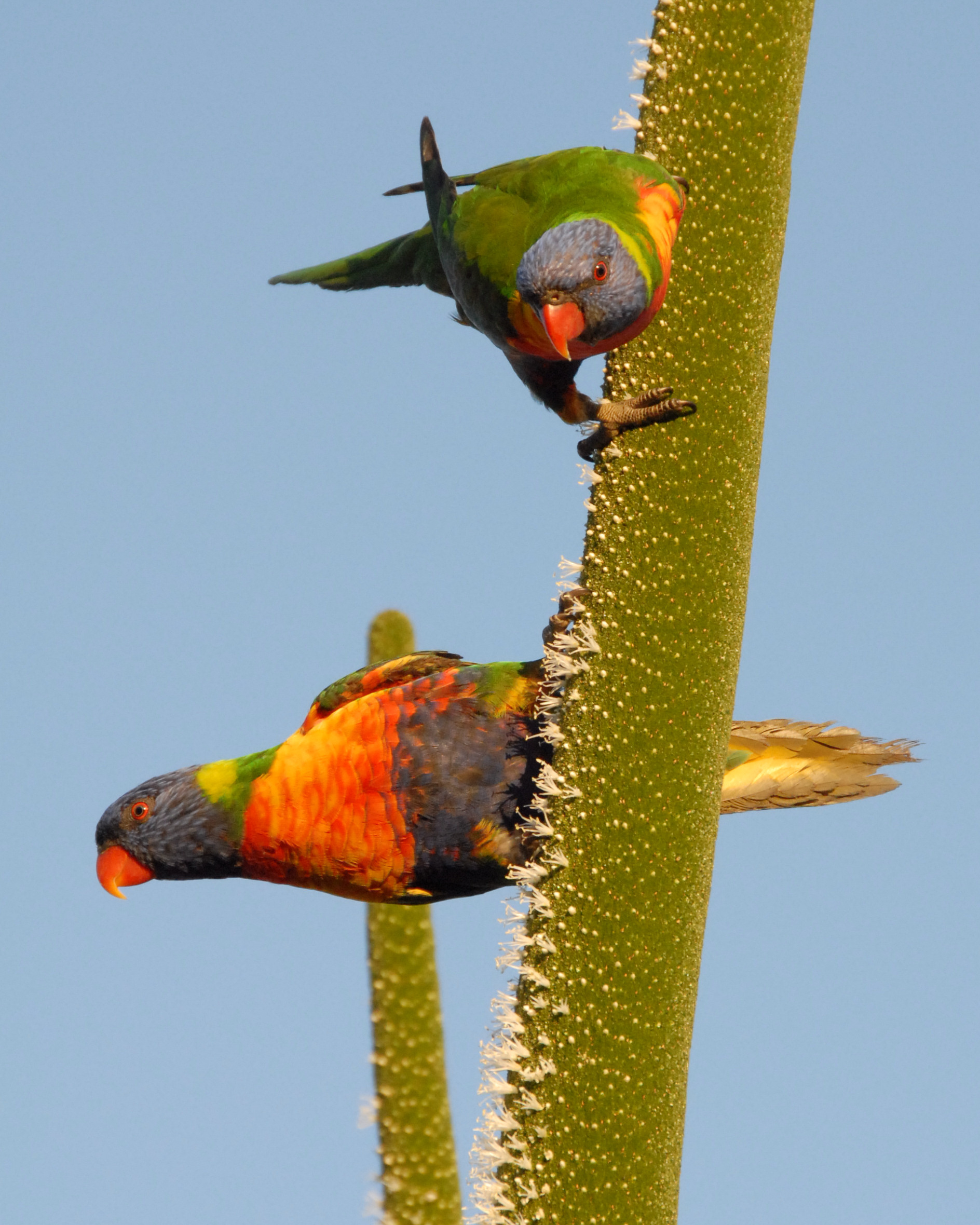 Photograph showing two Trichoglossus moluccanus (Rainbow Lorikeets), an introduced species, feasting on a flowering Xanthorrhoea in Western Australia. Given a crop and selected to show the upper and lower details of the species. Photographed at sunset, bit of a fluke, previous settings on camera produced a slightly exaggerated effect.